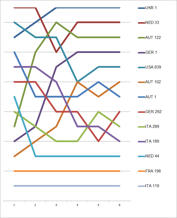 Soling positions during the 2012 Vintage Yachting Games